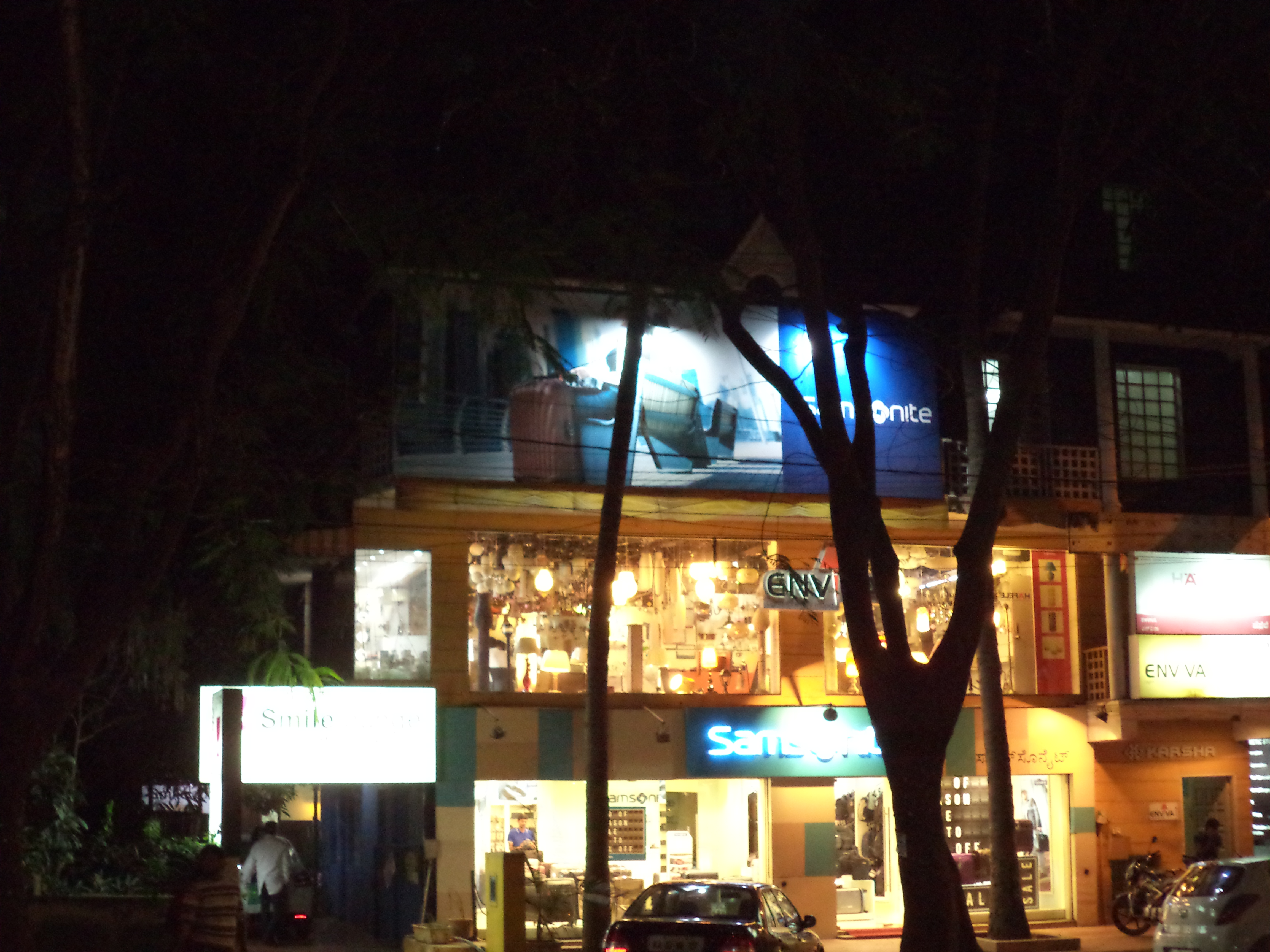 Hundred Feet Road, Indiranagar: Shop till you drop